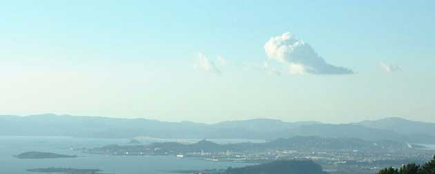 crop of aerial image from berkeley, calif. hills cropping out the portion that shows richmond, calif.